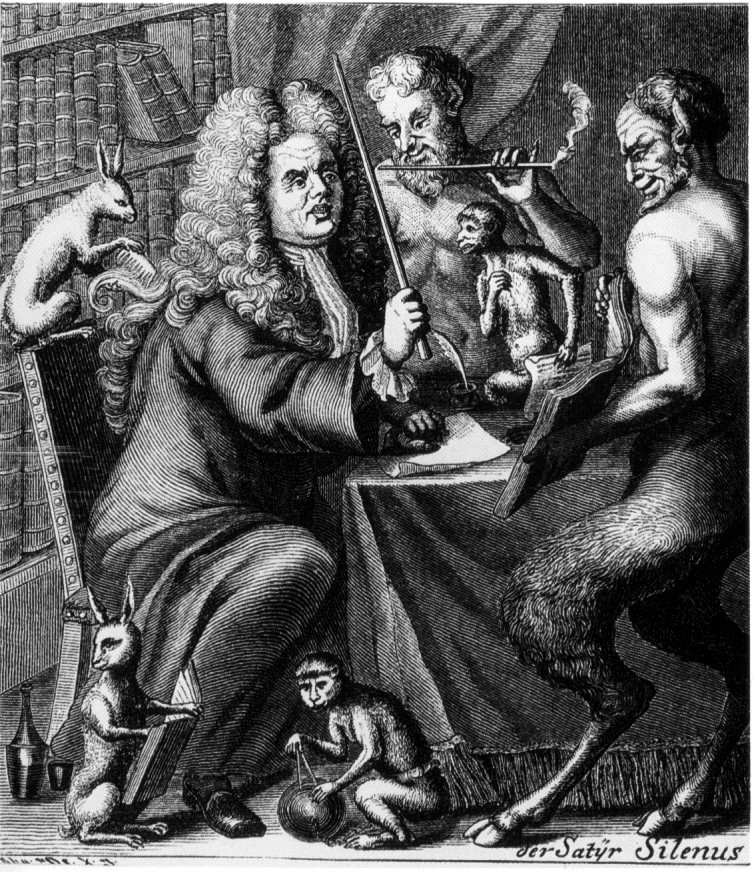 Caricature of Jacob Paul von Gundling